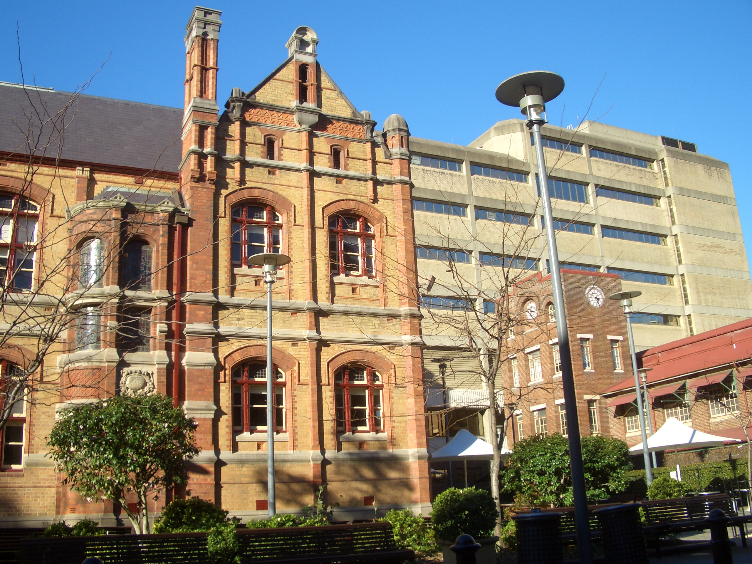 Sydney Institute of TAFE, Ultimo